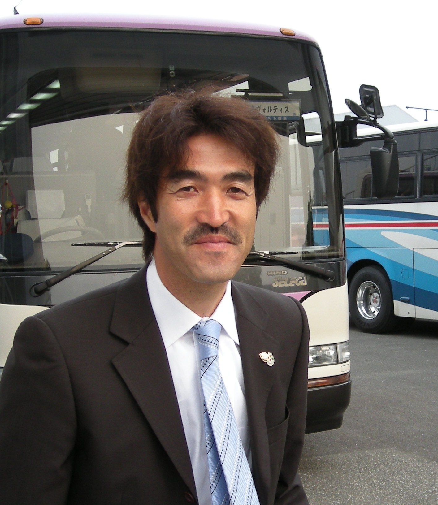 He is Naohiko Minobe, Japanese football manager. He is now the headcoach of Tokushima Vortis.